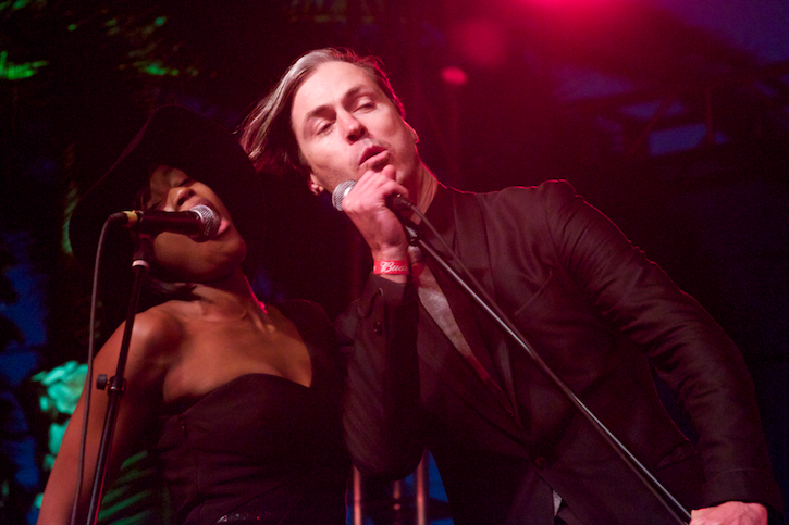 Fitz and the Tantrums - Michael Fitzpatrick and Noelle Scaggs at a 2010 performance in San Diego.